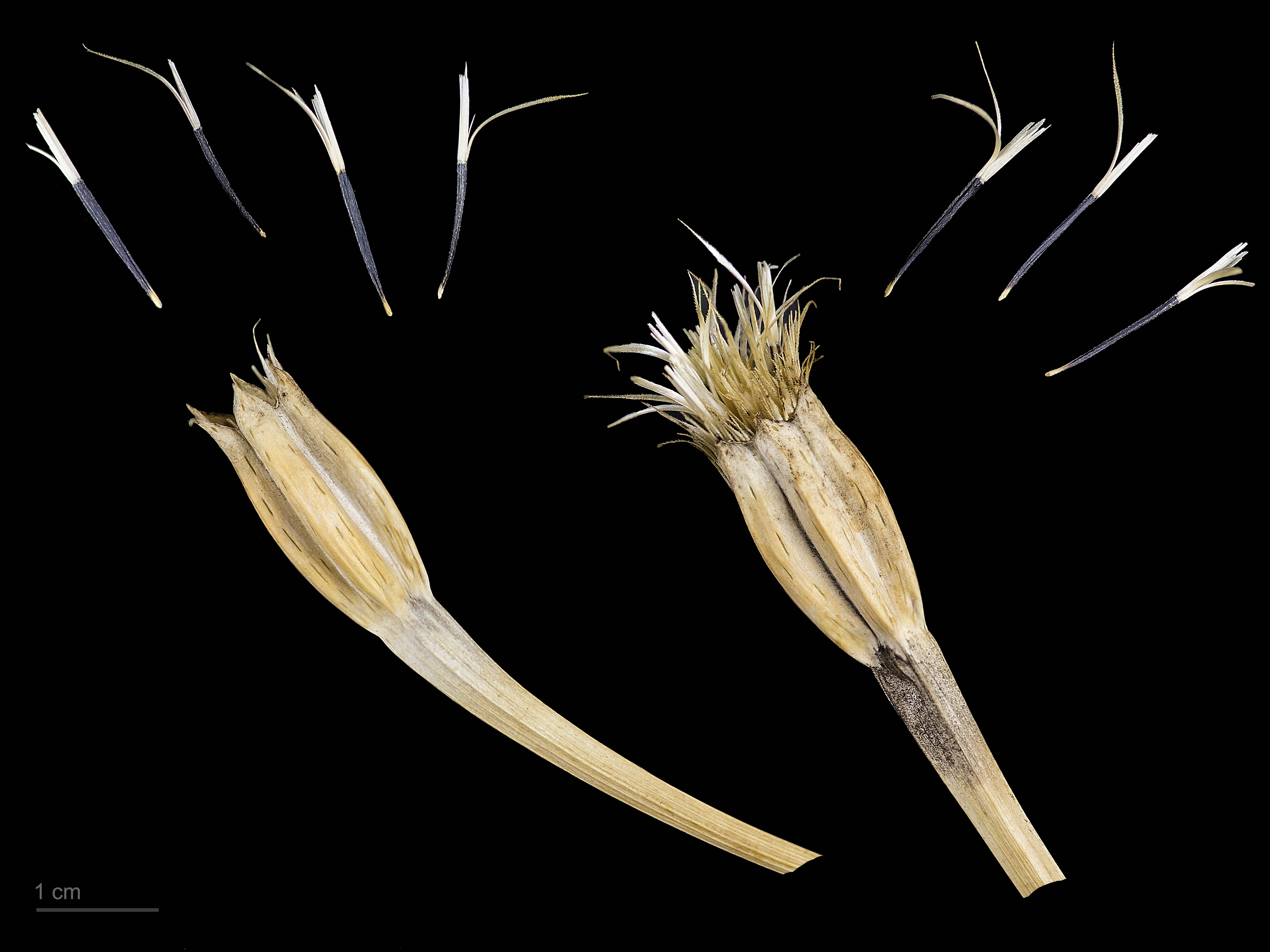 French marigold, fruits and seeds